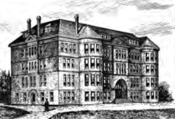 West Hall (now Waldschmidt Hall) at what was Portland University, now part of campus of the University of Portland.